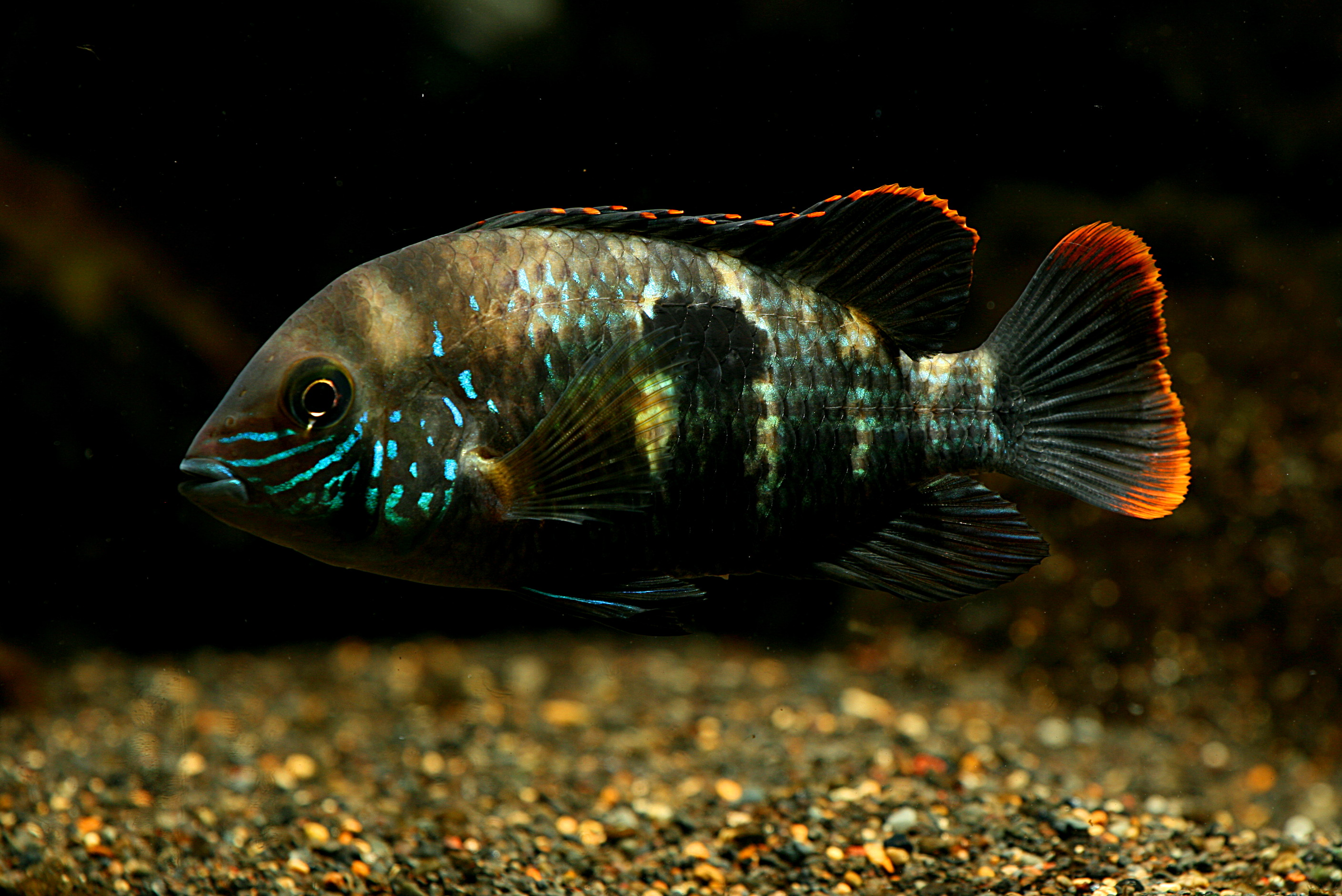 A green terror (Andinoacara rivulatus).